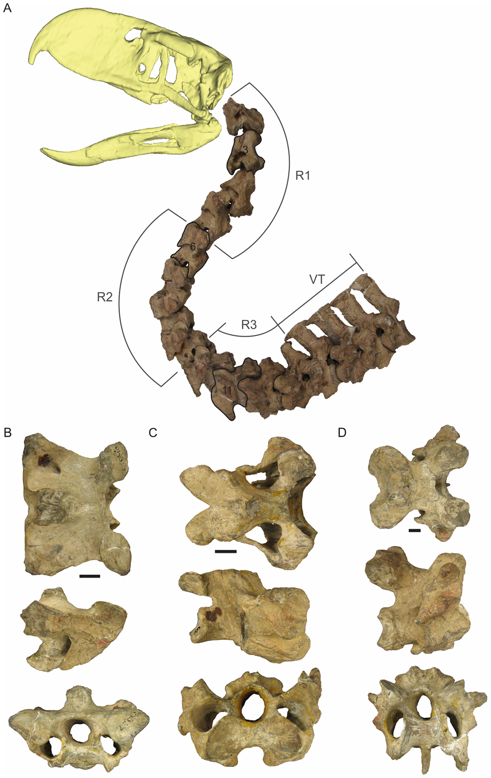 image from the study: "Flexibility along the Neck of the Neogene Terror Bird Andalgalornis steulleti (Aves Phorusrhacidae)"